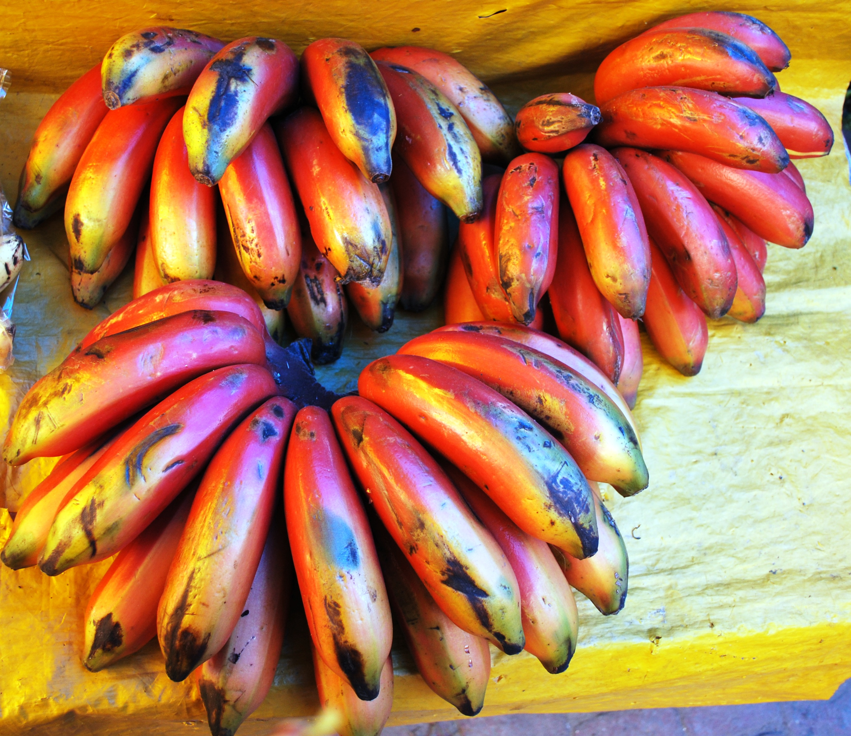 Red bananas for sale at a tianguis market in Metepec, Mexico State